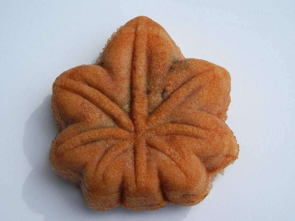 Momiji_Manju_Hiroshima.. 広島のお土産「もみじまんじゅう」, Miyajima.